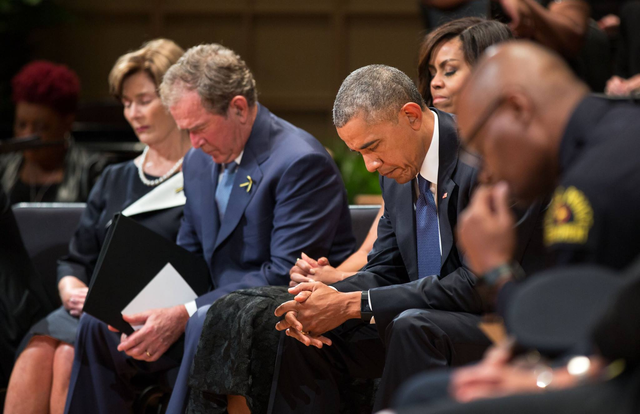 "That’s what I take away from the lives of these outstanding men. The pain we feel may not soon pass, but my faith tells me that they did not die in vain. I believe our sorrow can make us a better country. I believe our righteous anger can be transformed into more justice and more peace. Weeping may endure for a night, but I’m convinced joy comes in the morning.” —President Obama at the memorial service for the fallen officers of the Dallas Police Department